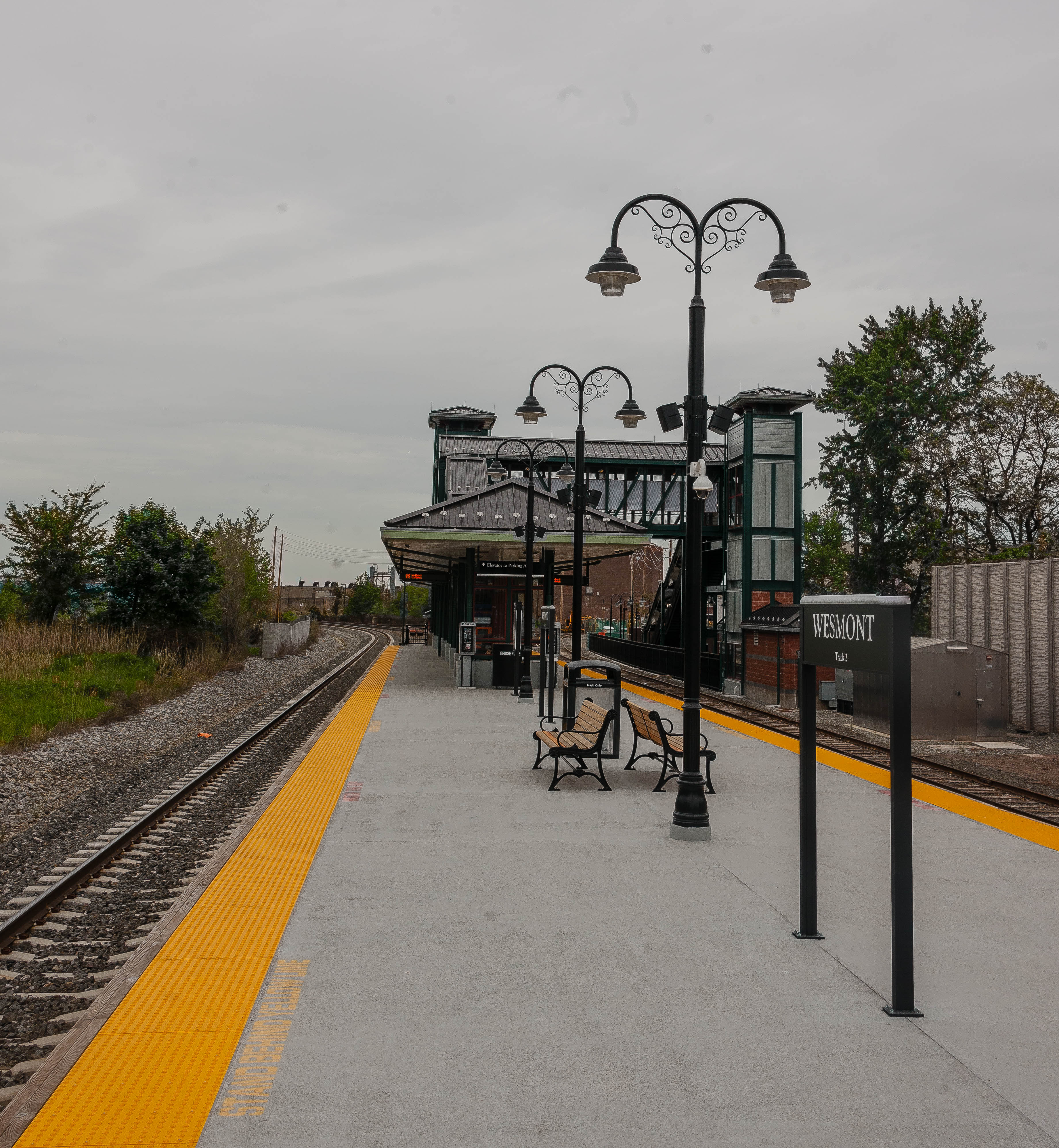 NJ Transit's new Wesmont station on the Bergen County Line, a week after opening.